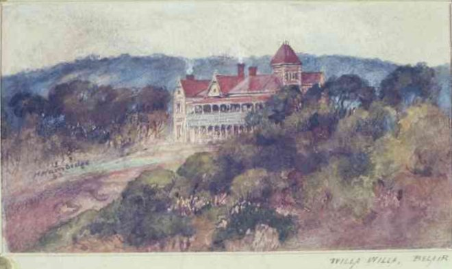 BELAIR: A painting of 'Willa Willa' a residence in Belair. Copied from a book presented to Lady Victoria Buxton - Refer Birralee, Belair